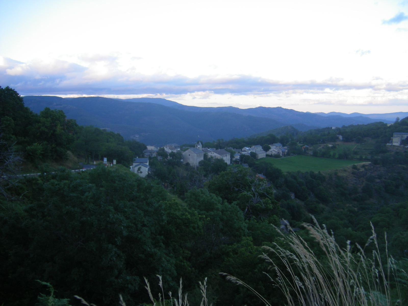 Le Pompidou - view from west